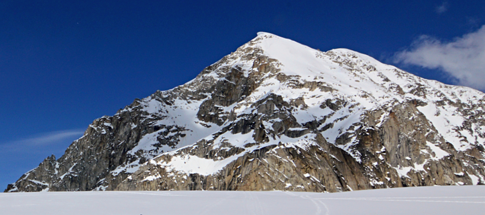 Mount Frances in Alaska Range (Army photo/John Pennell)